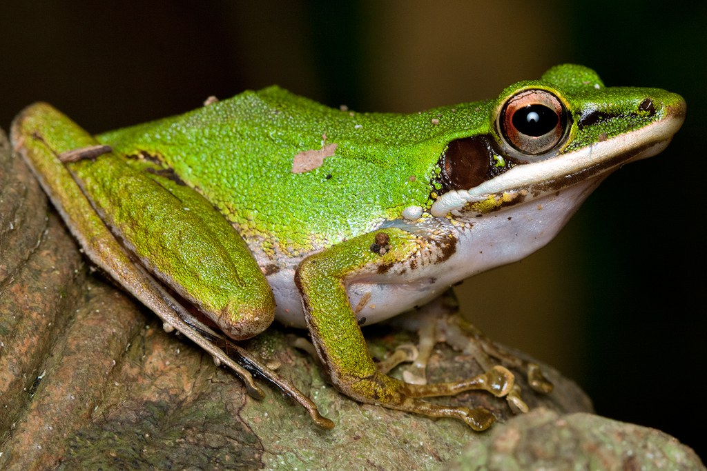 Taking a break from insects and into the amphibious world... A copper cheeked tree frog (or White-lipped Frog as they say; Hydrophylax raniceps) that was found near a stream along a trail in Venus Drive, Singapore macro site. A local pointed to me this nonchalantly sitting frog on a tree branch a few meters away from his macro group where they were checking out other creatures like skinks and other frogs. They're called copper cheeked because of their large brown colored eardrums near their eyes.